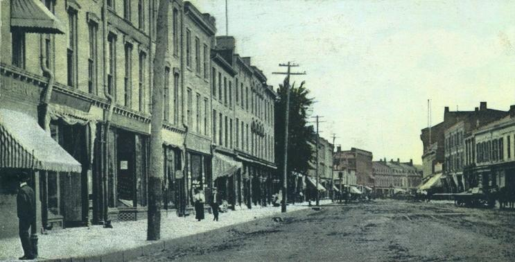 Print (photomechanical), St. Paul Street, St. Catharines, ON, about 1910, Coloured ink on paper mounted on card - Photolithography - 7.5 x 14 cm